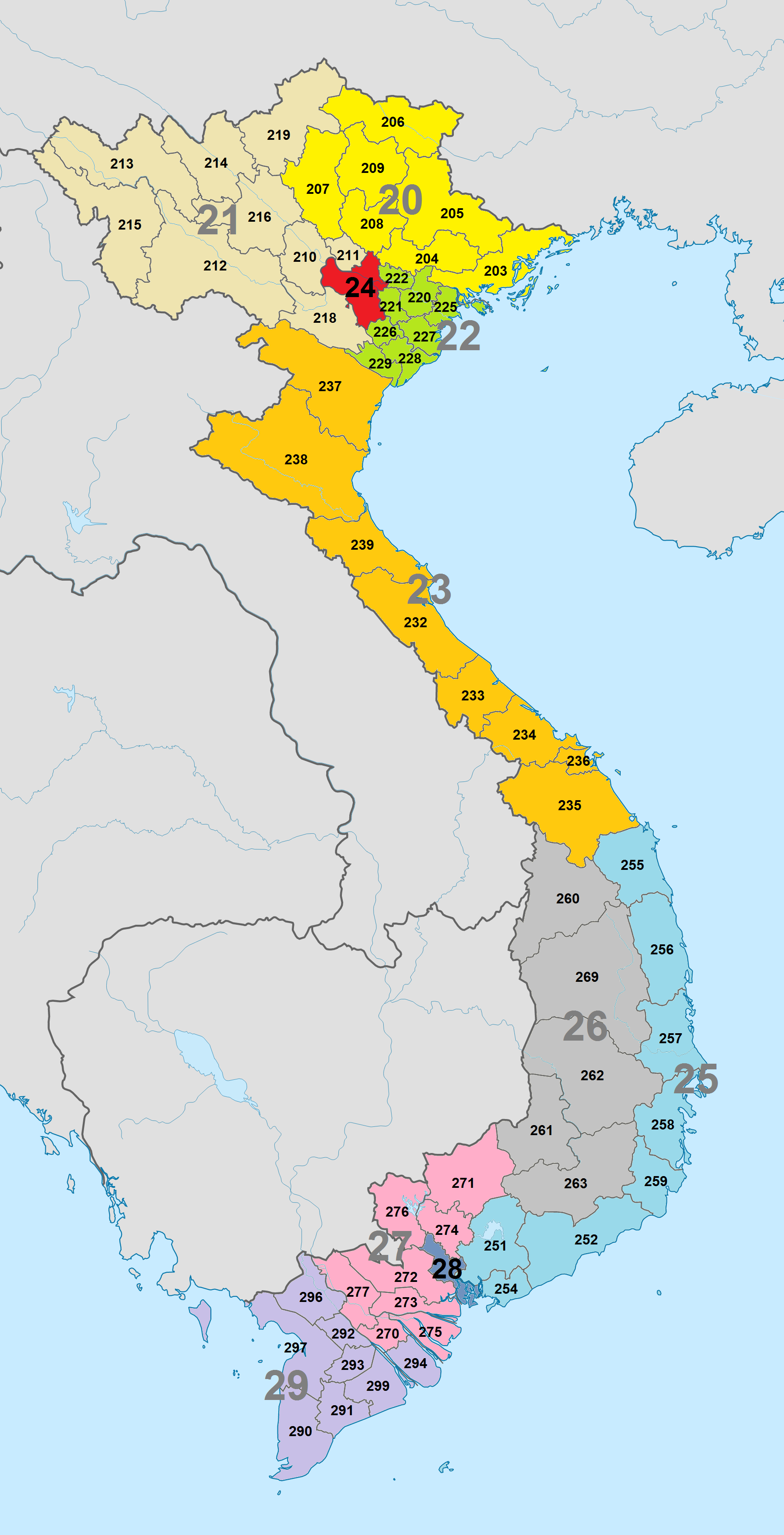 Vietnam area code map